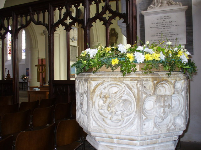 Farnham Parish Church. Font inside St Andrew's Church which has much 15th and 16th century stonework. The original church was Norman.